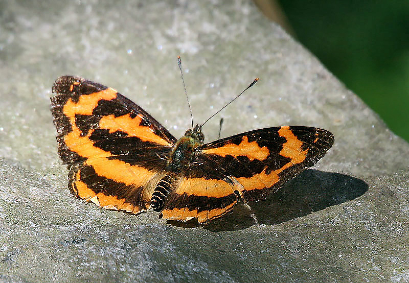 Common Jestor Symbrenthia hippoclus. Shot taken on way to Guna Pani(around 7500 ft.), Kullu distt. of Himachal Pradesh, India during Sar Pass Trek.